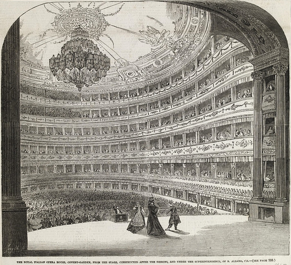 Interior view of the Royal Italian Opera House, Covent Garden, from the stage, constructed after the designs, and under the superintendence, of B. Albano. From a newspaper cutting probably from the Illustrated London News, hand-dated 1847. Victoria and Albert Museum, London, Museum number: S.6164-2009